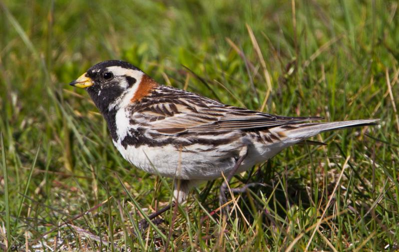 Lapland Longspur - Calcarius lapponicus - Sportittlingur